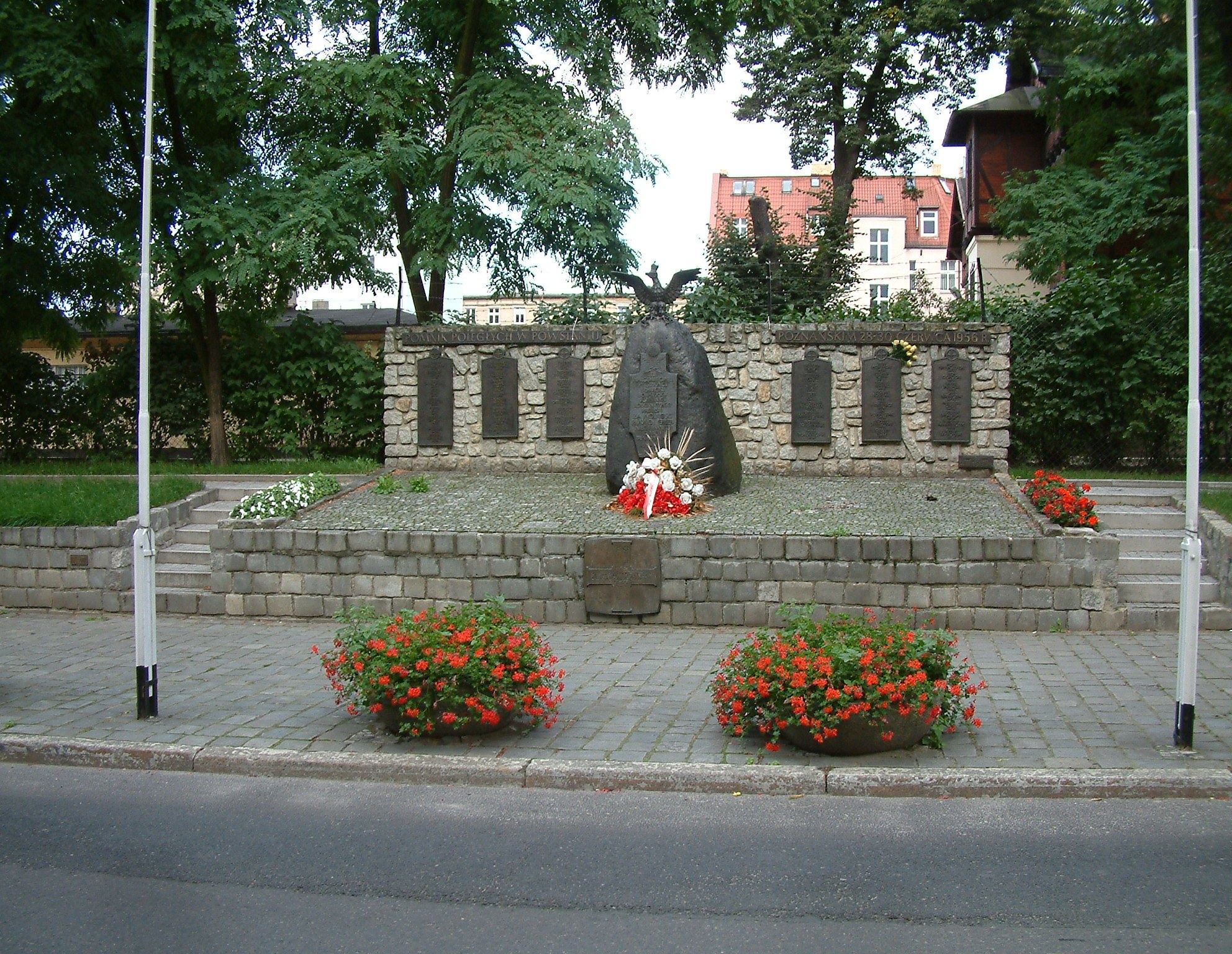 Monument of victimes of Poznań June 1956 on Kochanowskiego Str.